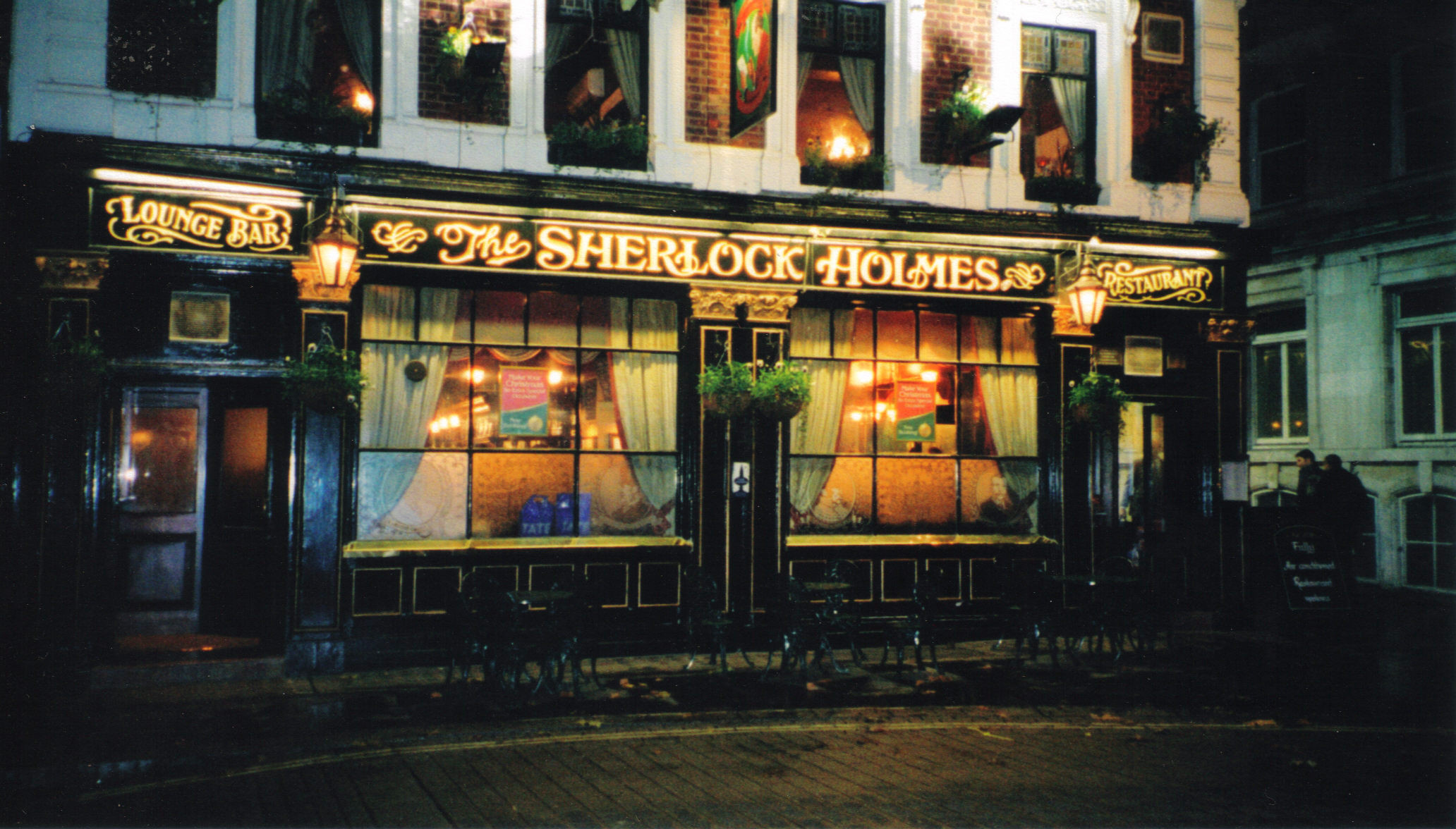 The Sherlock Holmes pub, Northumberland Street near Charing Cross railway station (see 221B Baker Street article), London, taken by Kafziel